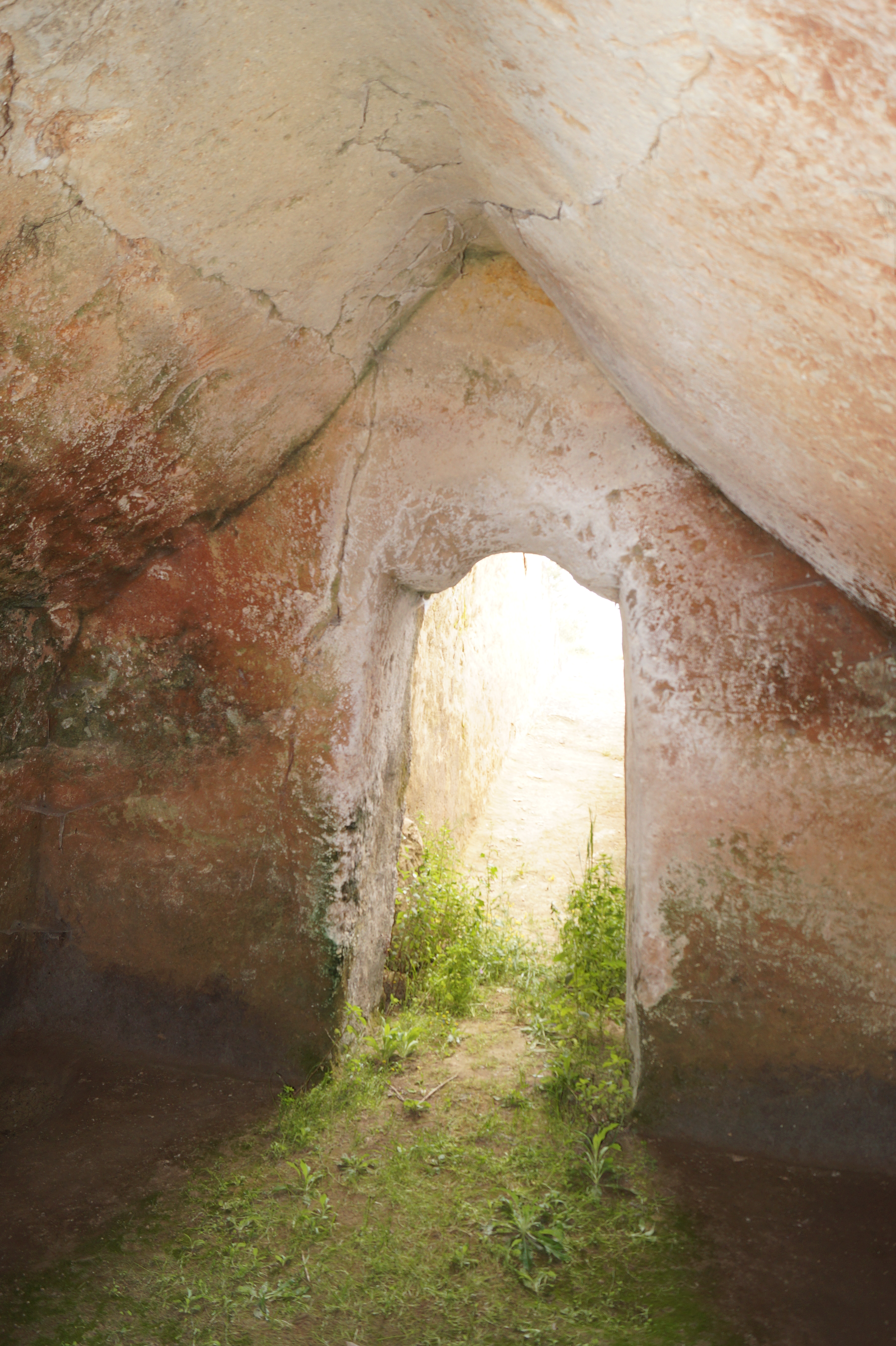 Aidonia, Corinthia, Greece: Mycenaean cemetery of Aidonia, entrance of tomb 8.